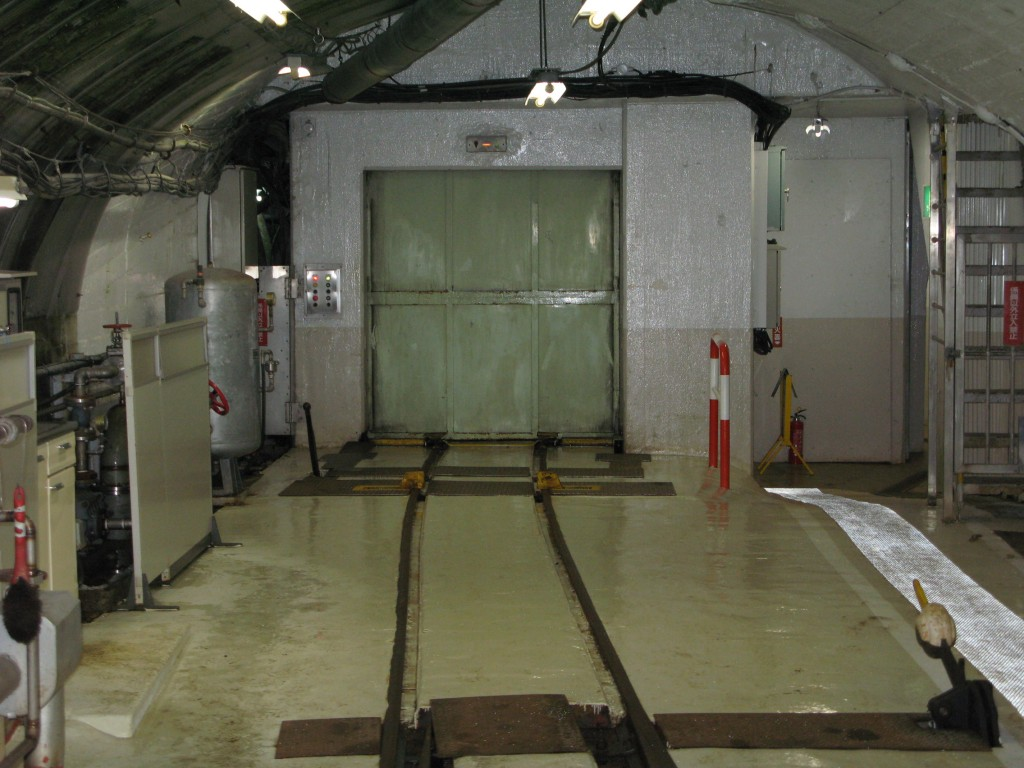 The elevator linking Keyakidaira-Kabu Station and Keyakidaira-Jobu Station of Kurobe Senyo Railway (Jobu Track), Kurobe, Japan.